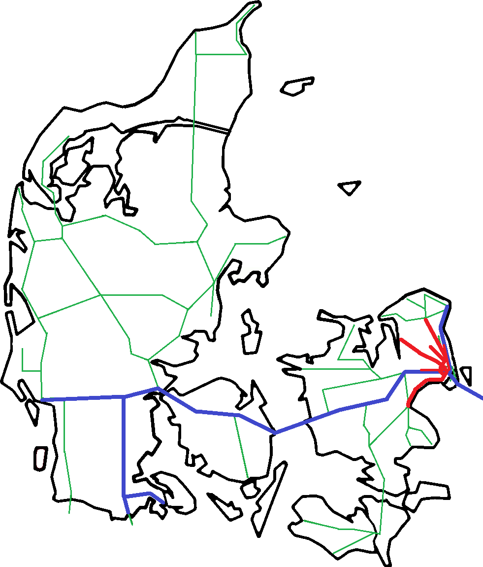 Map of railways in Denmark. Railways for long distance trains electrificated with 25.000 V 50 Hz AC overhead wire are shown in blue. The Copenhagen S-railways with 1650 V DC overhead wire are shown in red. Not shown is the Copenhagen metro with third rail.